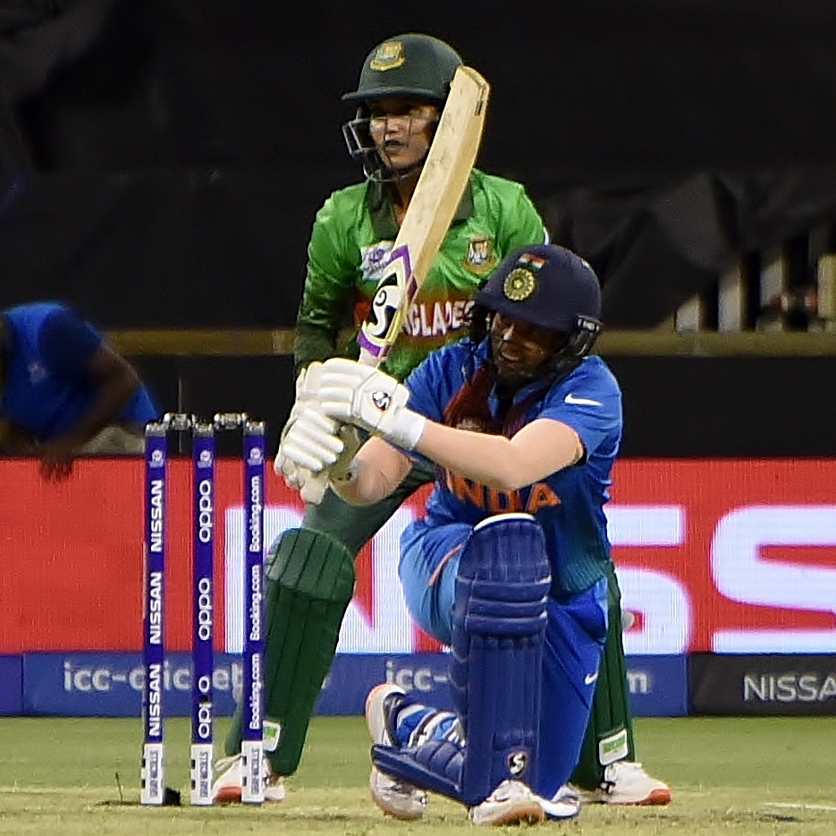 Deepti Sharma batting for India against Bangladesh during their 2020 ICC Women's T20 World Cup match at the WACA Ground in Perth, Australia. The wicket-keeper is Nigar Sultana (cricketer).